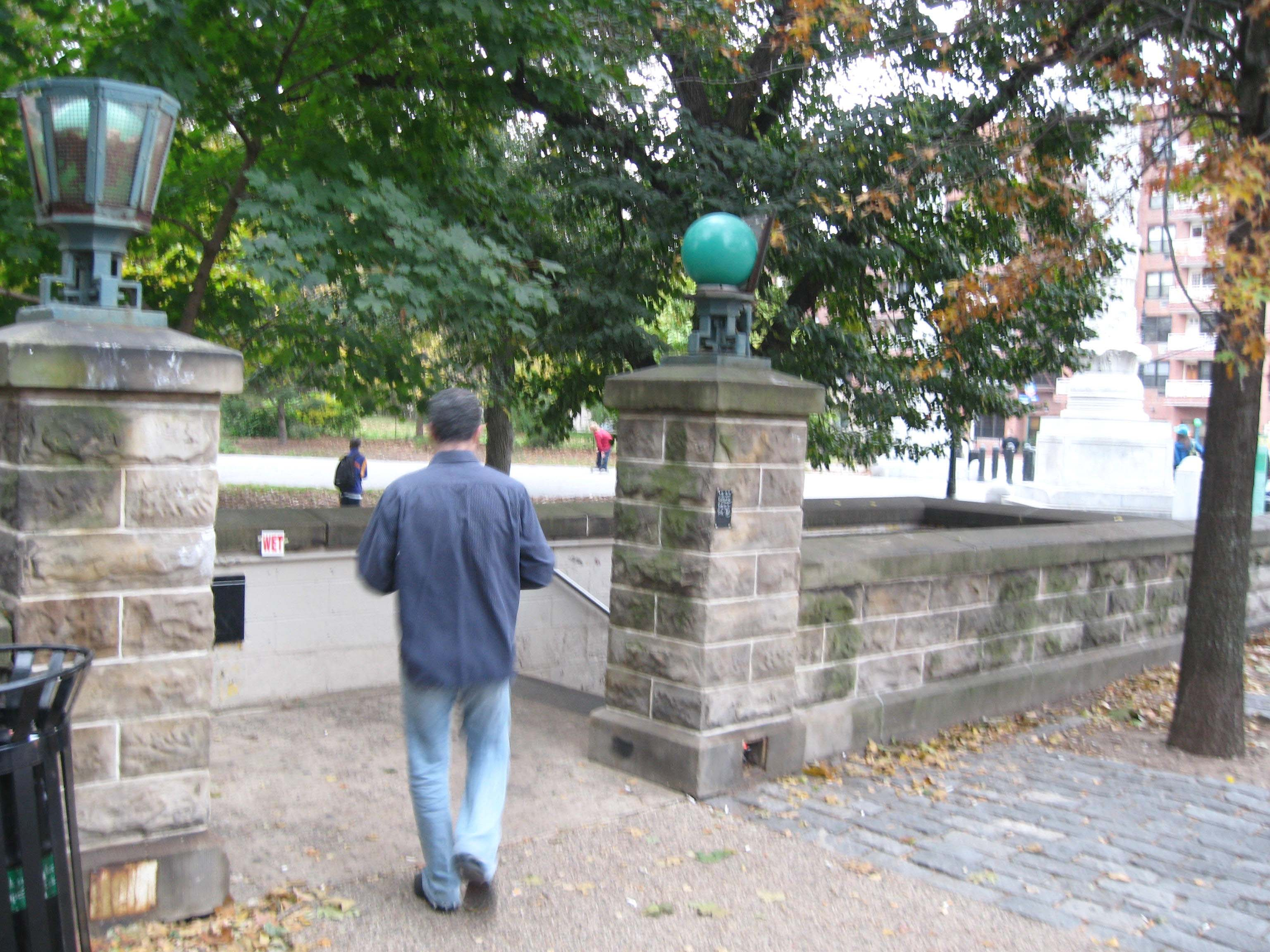 Looking south at en:15th Street–Prospect Park (IND Culver Line) northern stair on a mostly cloudy afternoon